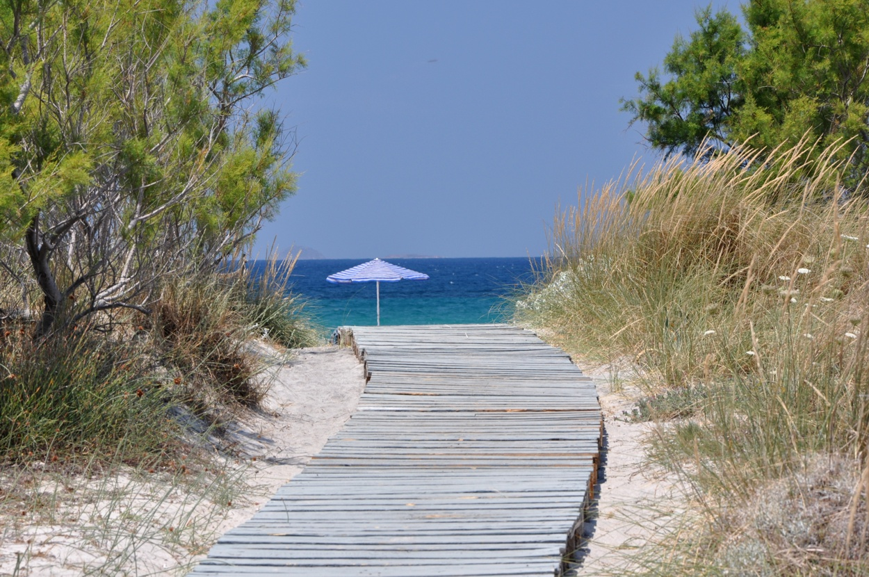 Going to the Lambi Beach, Kos.